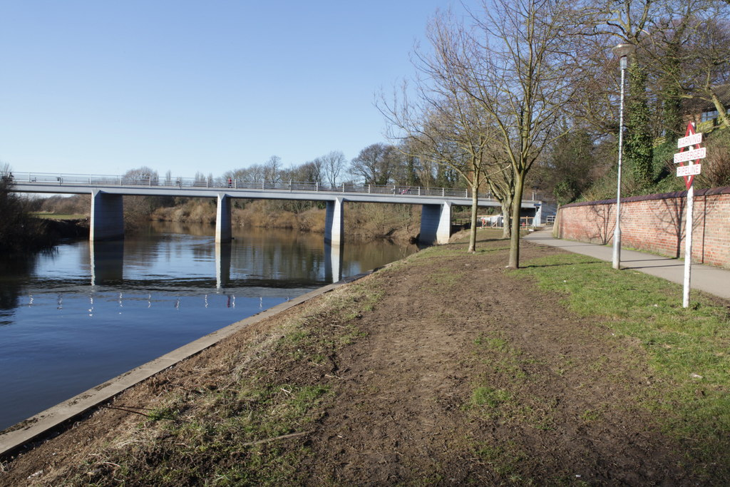 Clifton Bridge, York